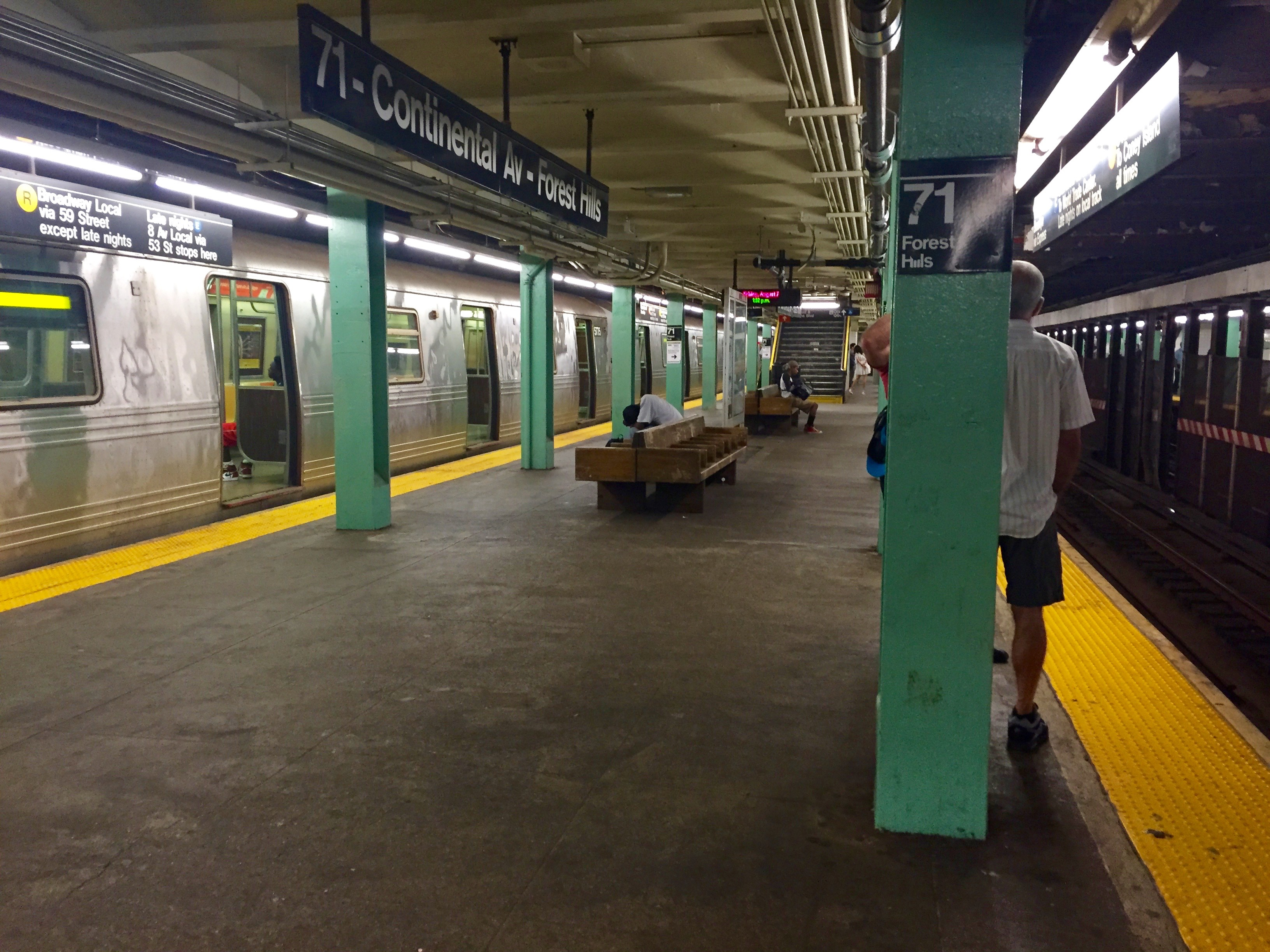 Manhattan bound platform at Forest Hills - 71st Avenue on the E/F/M/R.